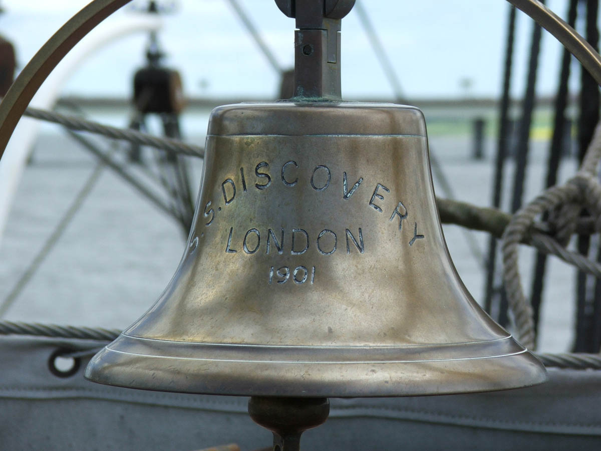 Bell of the RRS Dicovery in Dundee - Scotland, Zvon na Royal Research Ship Discovery v Dundee, Skotsko